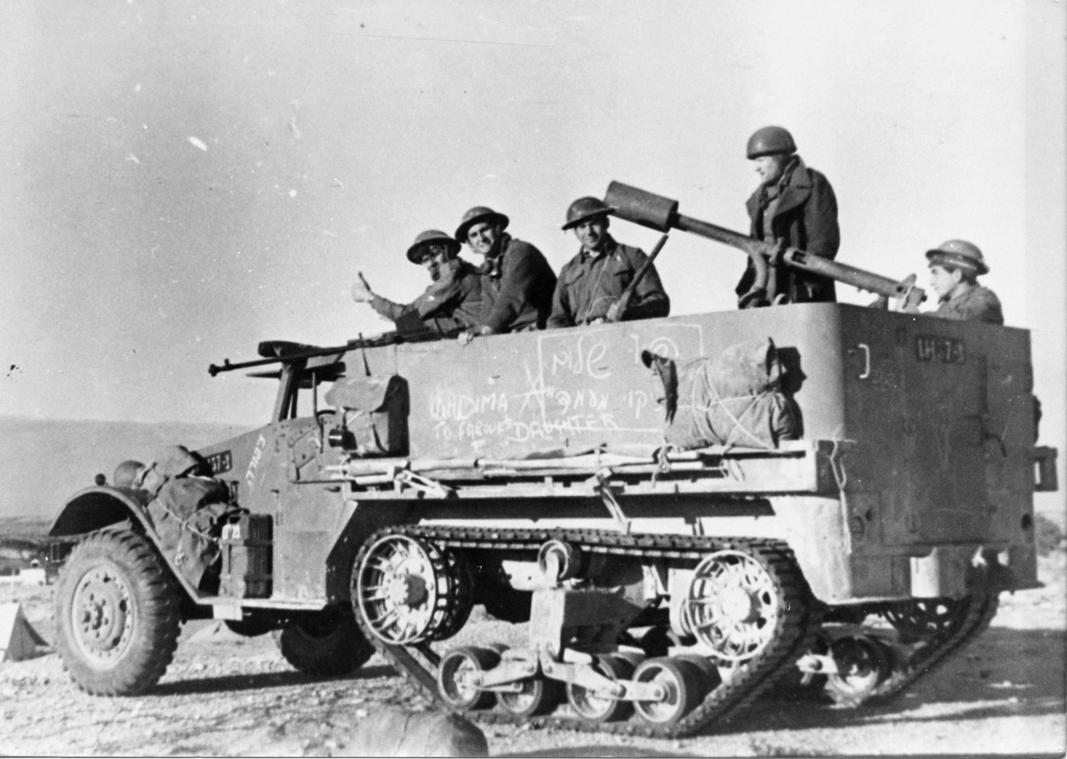 The Palmach, Israel Defense Forces